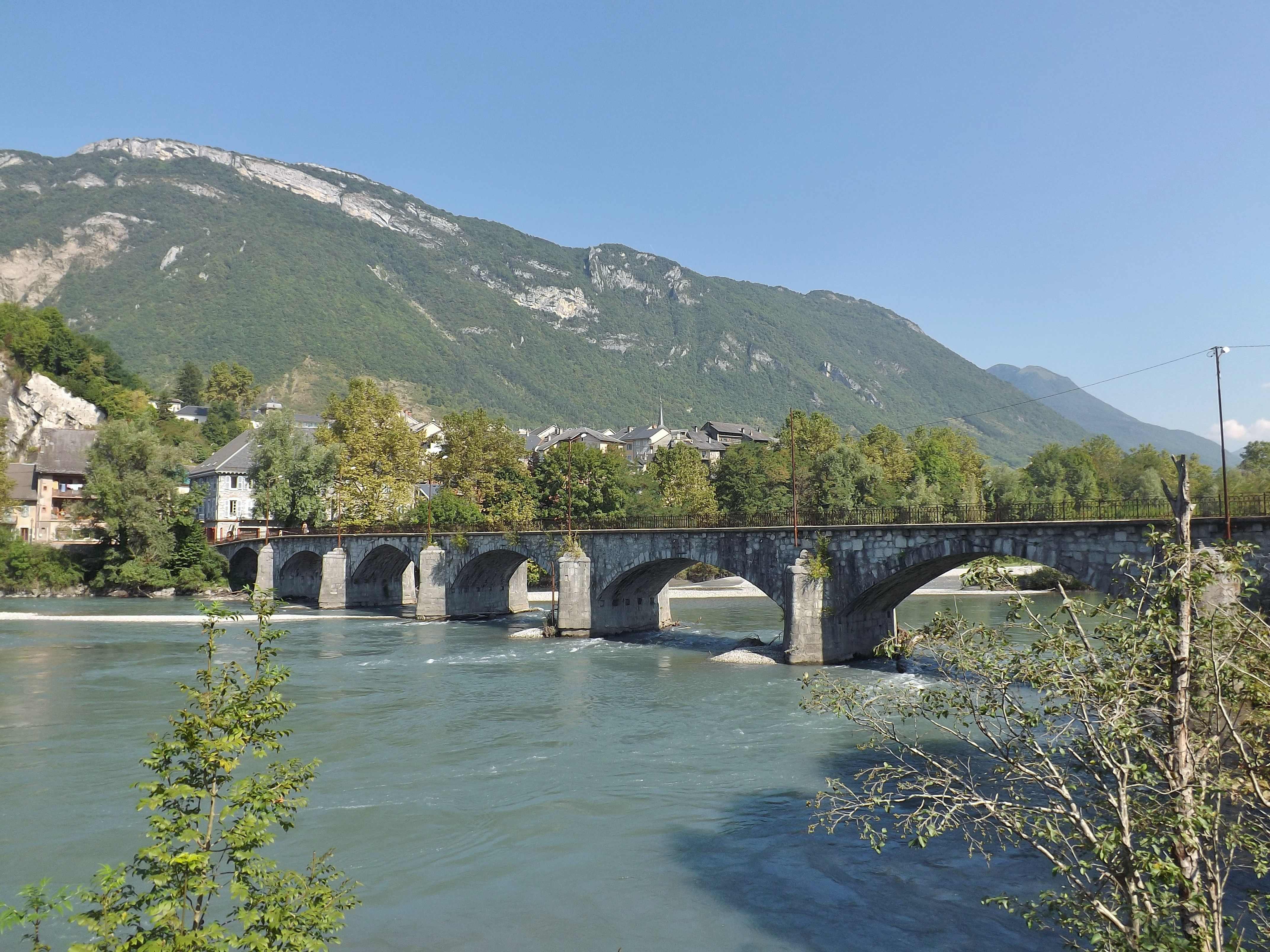 Sight of the Pont Morens bridge crossing the river Isère, between La Chavanne (coast of the picture) and Montmélian (on the other side), in Savoie, France.